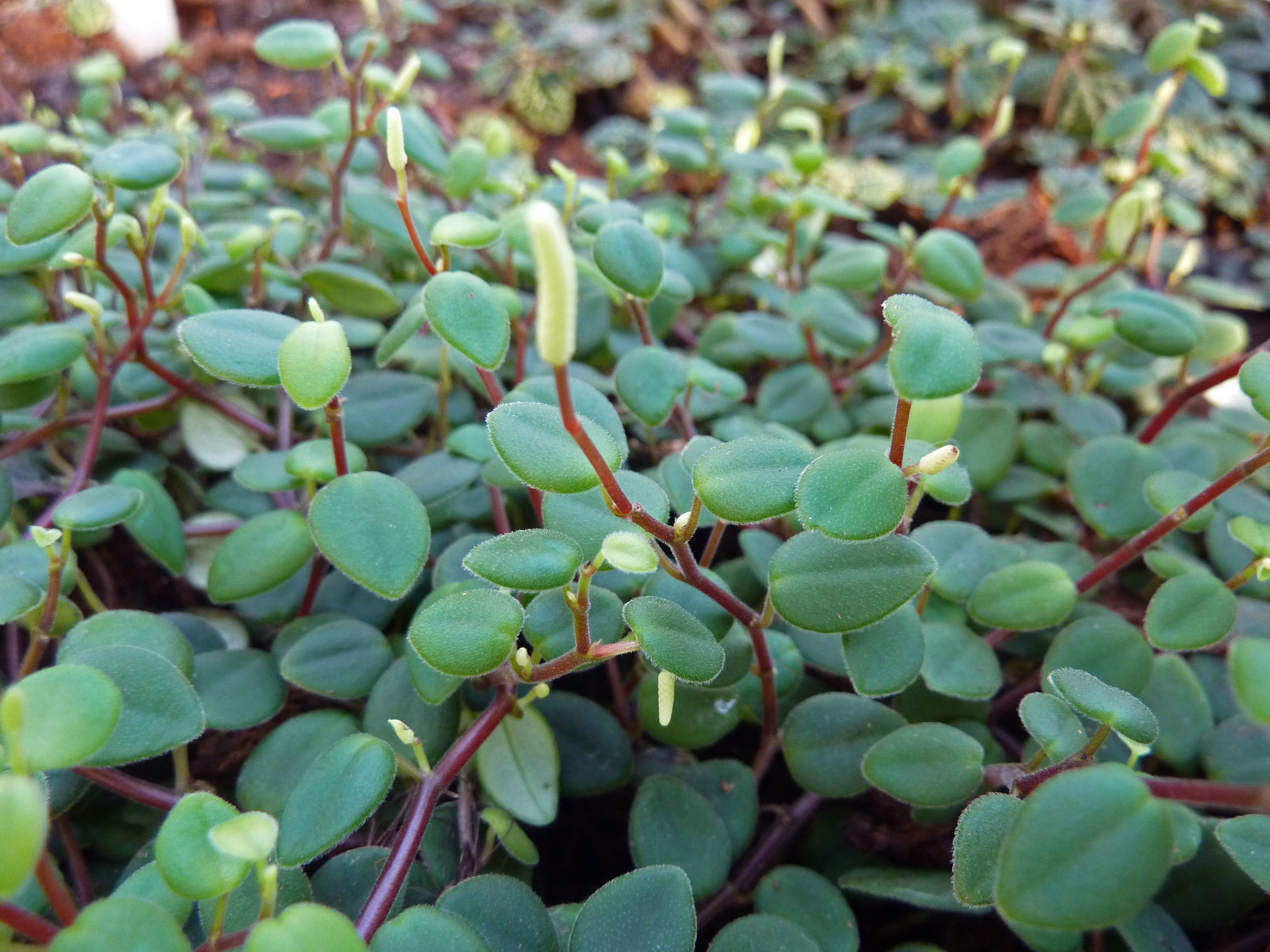 Peperomia perciliata in the Botanical Garden, Berlin